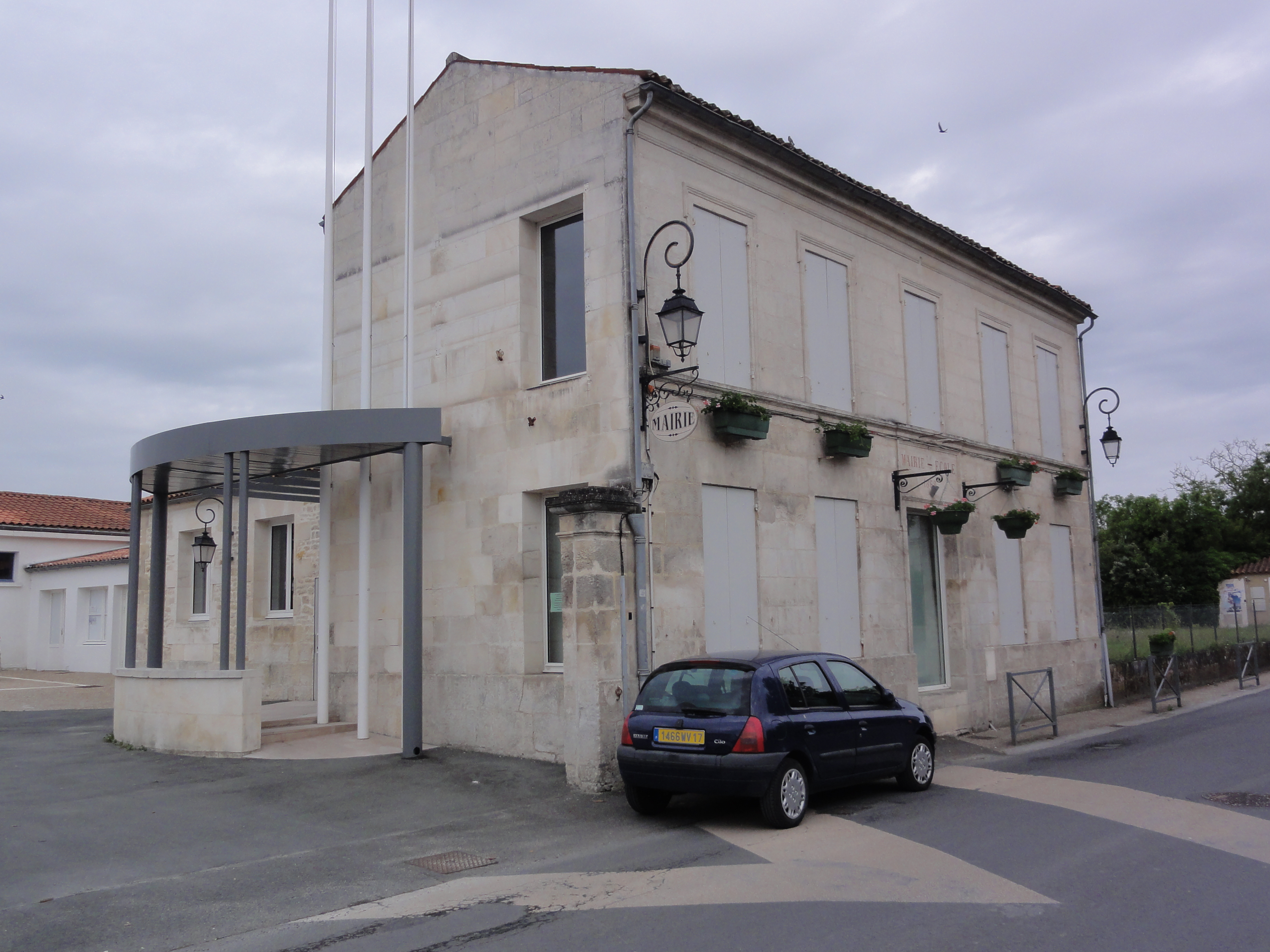 Les Gonds (Charente-Maritime) mairie